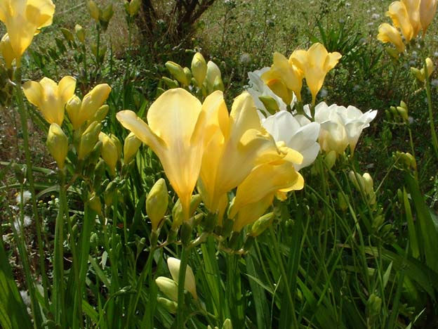 Freesia ×hybrida Freesias Photo by Jean Tosti License GFDL